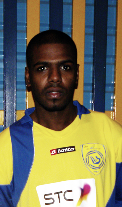 Ahmad Al-Dokhi is a Saudi Arabian football (soccer) player who currently plays as a defender for Al-Nassr.